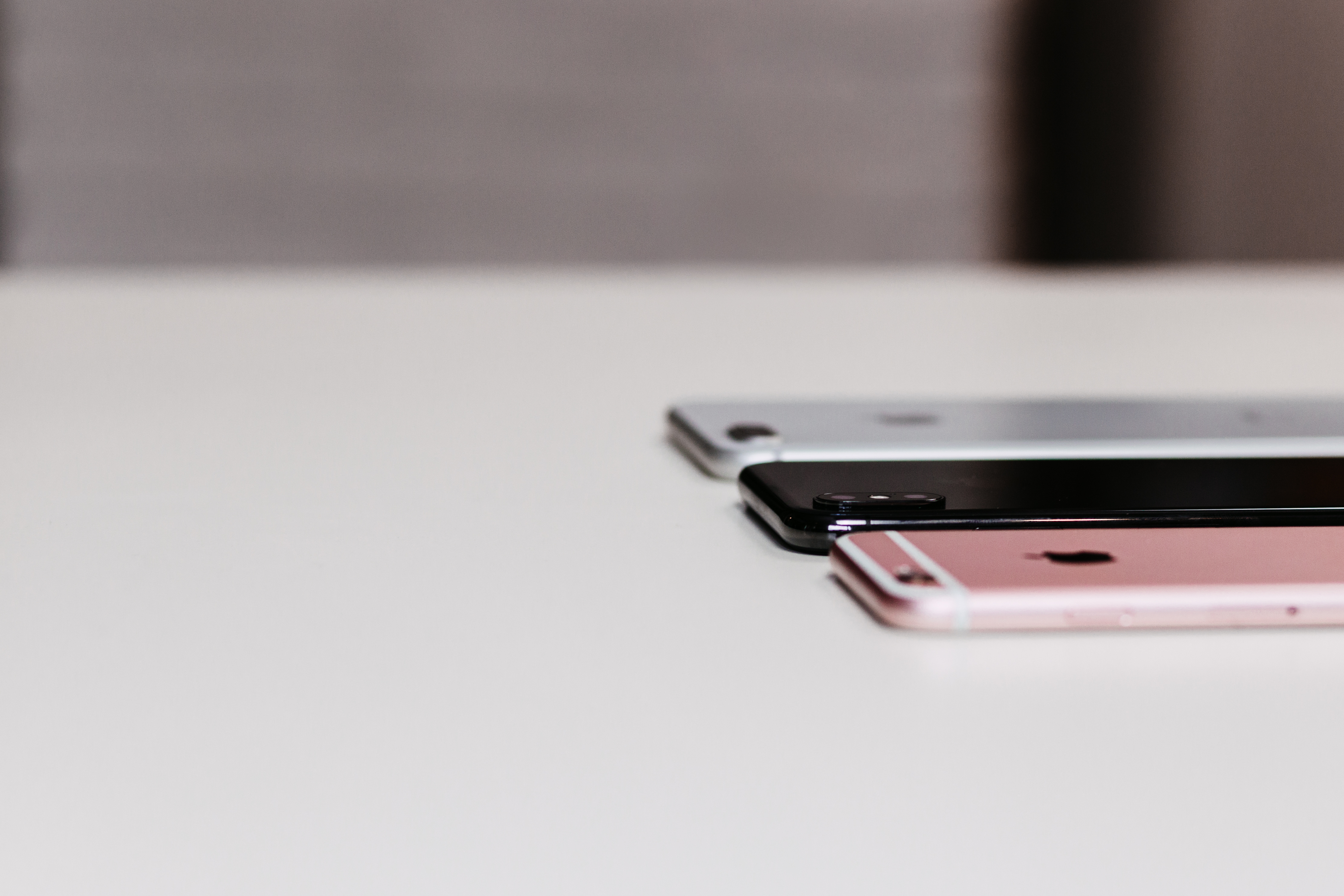 Get more free photos on